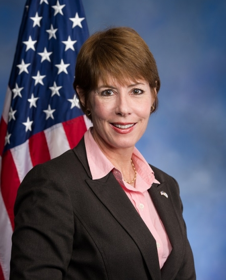 This is the Congressional Portrait of Rep. Gwen Graham (FL-02)